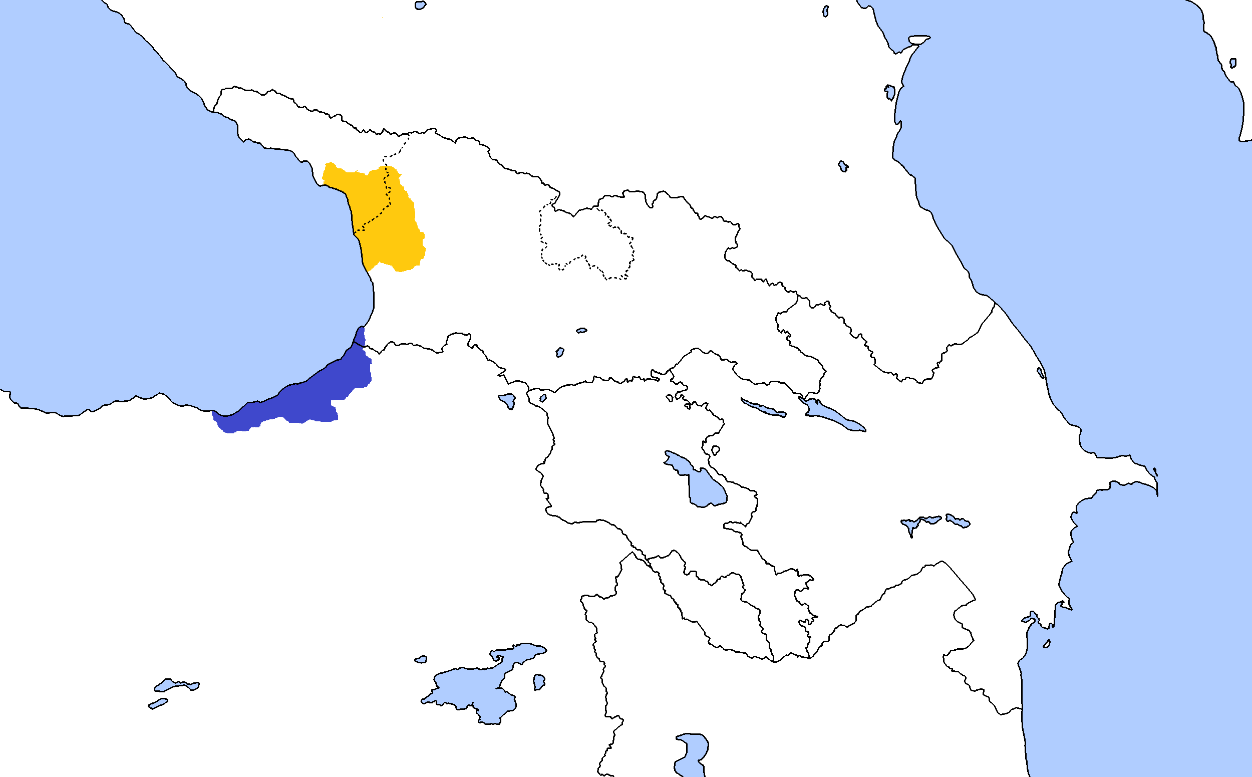 zan languages